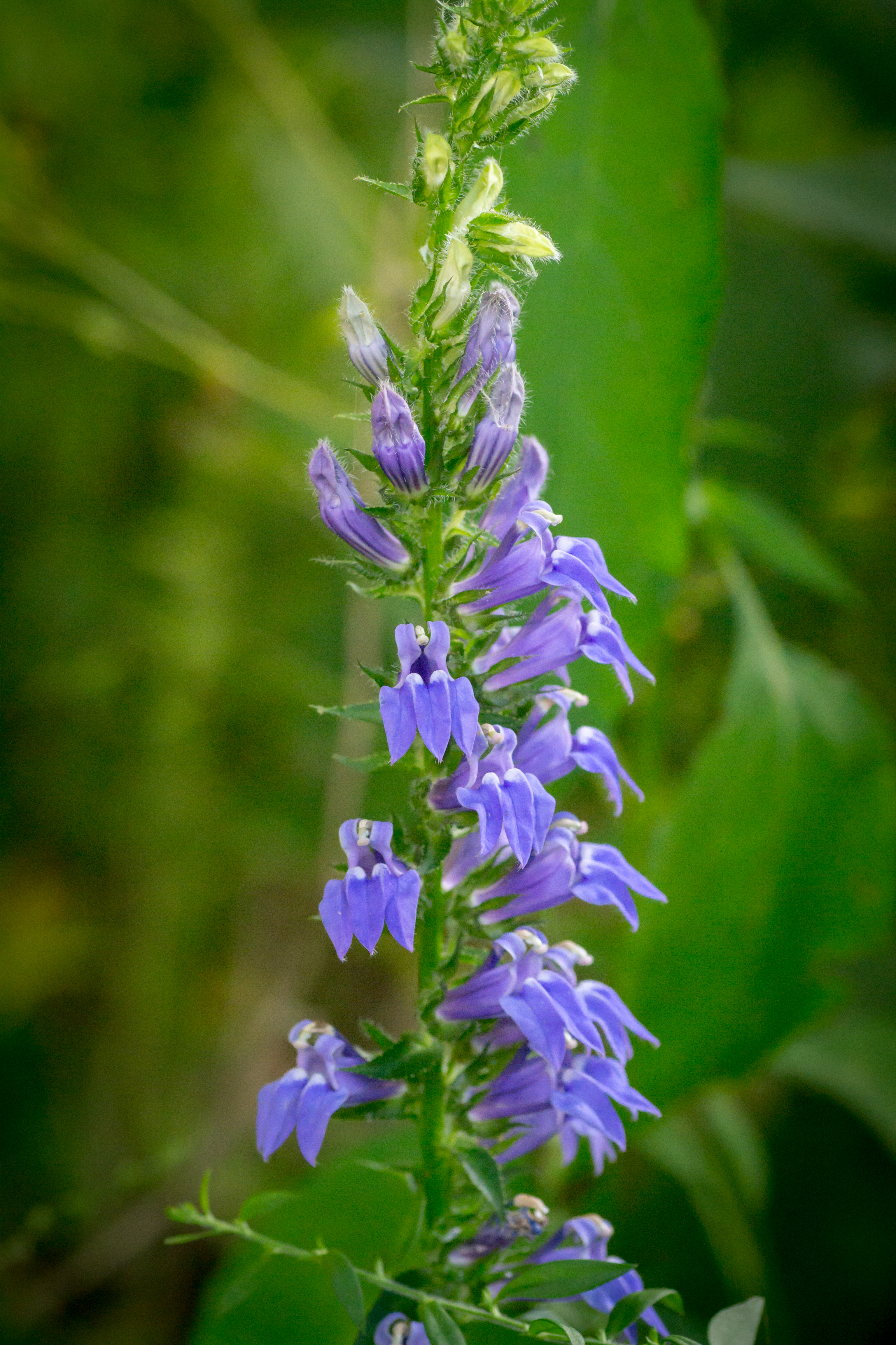 Dudley Woods Metro Park, Liberty Township, Ohio